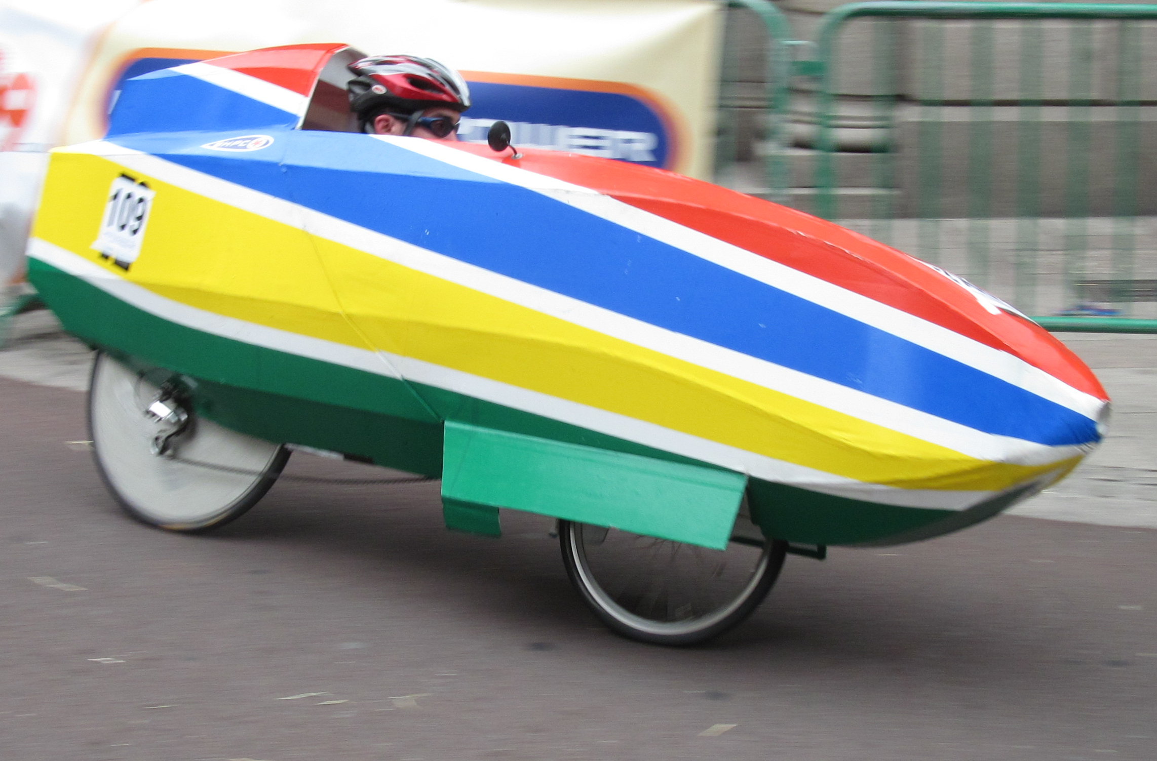 Jersey Town Criterium recumbent bicycle races, Saint Helier, Jersey - World Human Powered Vehicle Association 2010 World Championship